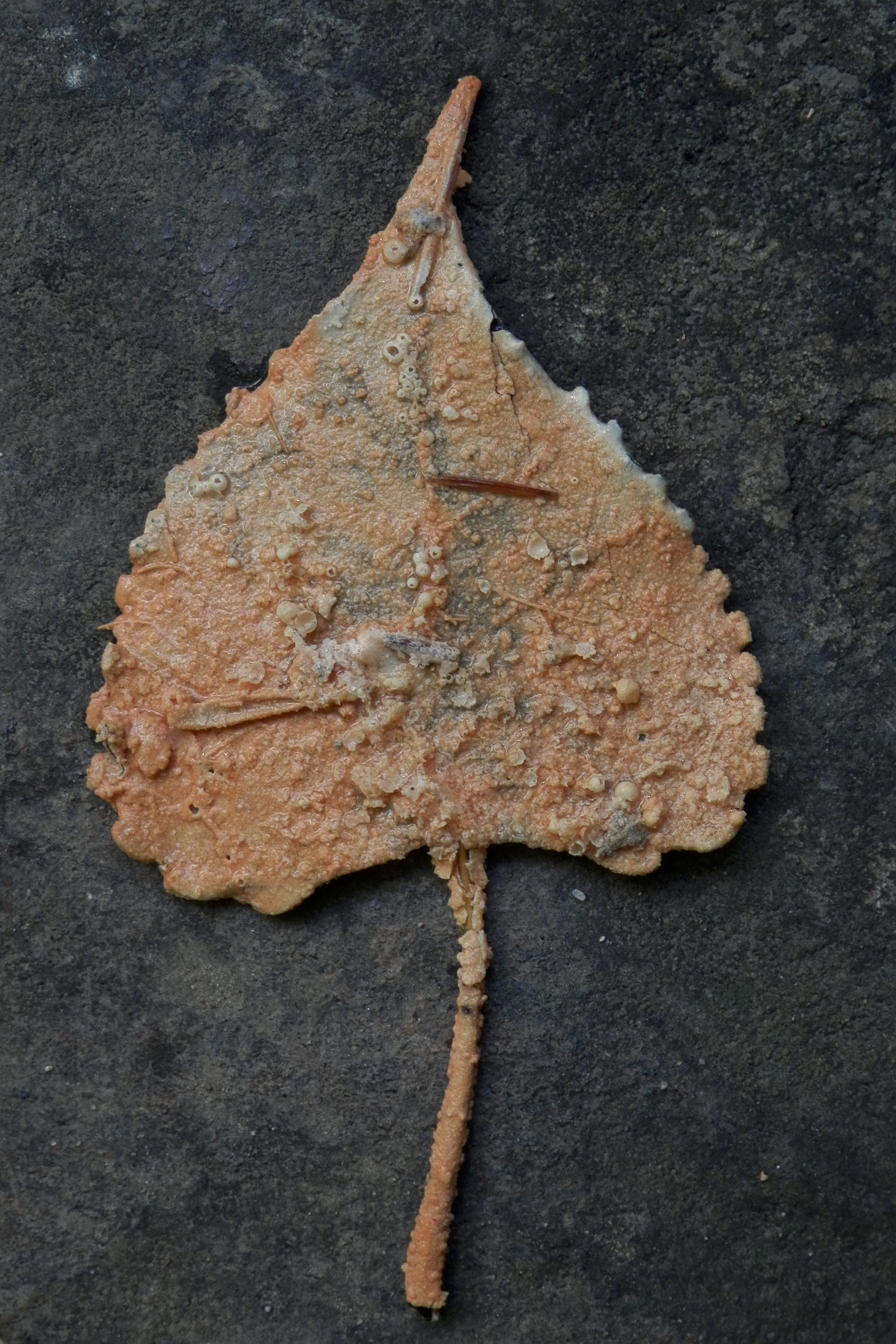 Tufa encrusted leaf at Saratoga Spa State Park in Saratoga Springs, New York, United States of America.